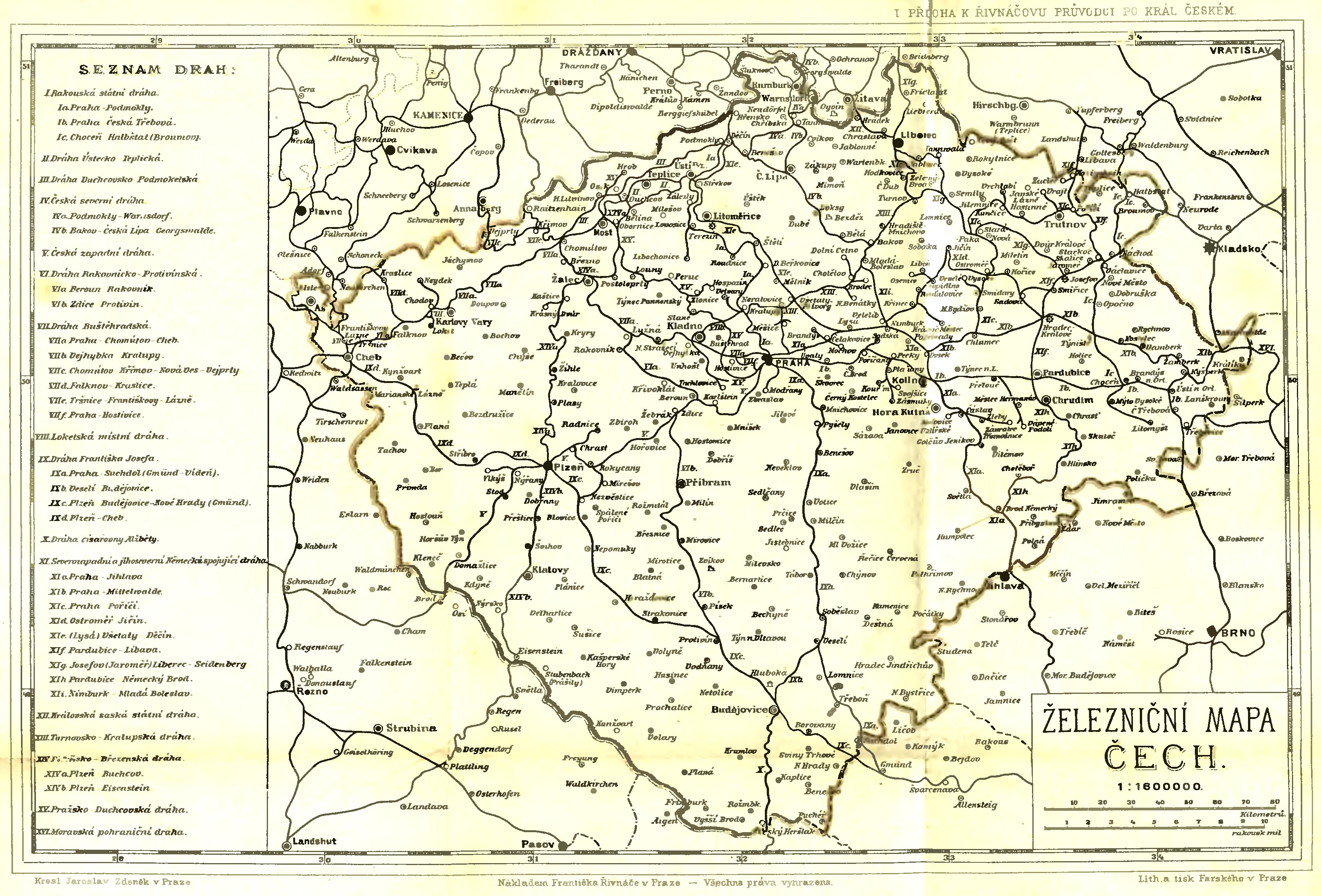 Rail map of Bohemia, showing the network in or shortly before 1883. Related article: History of rail transport in Czechia (in Czech).